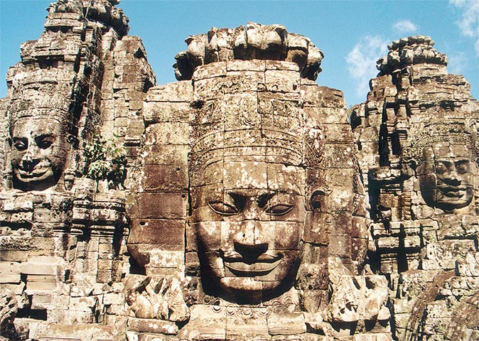 Face-towers depicting Bodhisattva Avalokiteshvara, Bayon-temple in Angkor, Cambodia (late 12th to beginning 13th century).